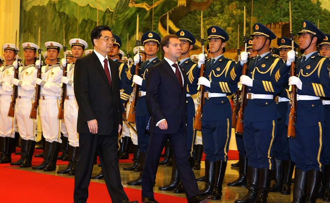 With President of China Hu Jintao at the official welcome ceremony.